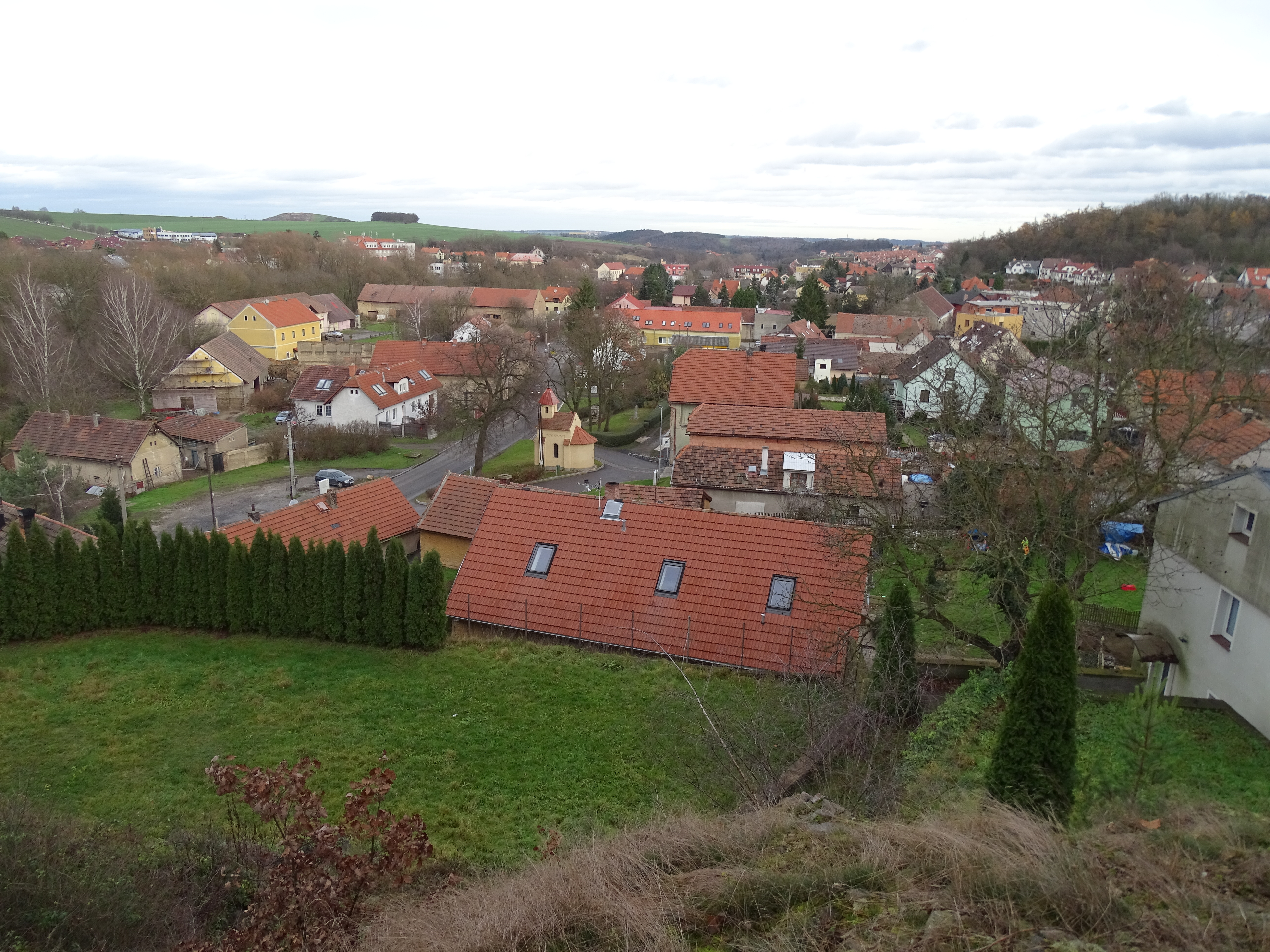 Velké Přílepy, Prague-West District, Central Bohemian Region, Czech Republic. A view from the cross hill.